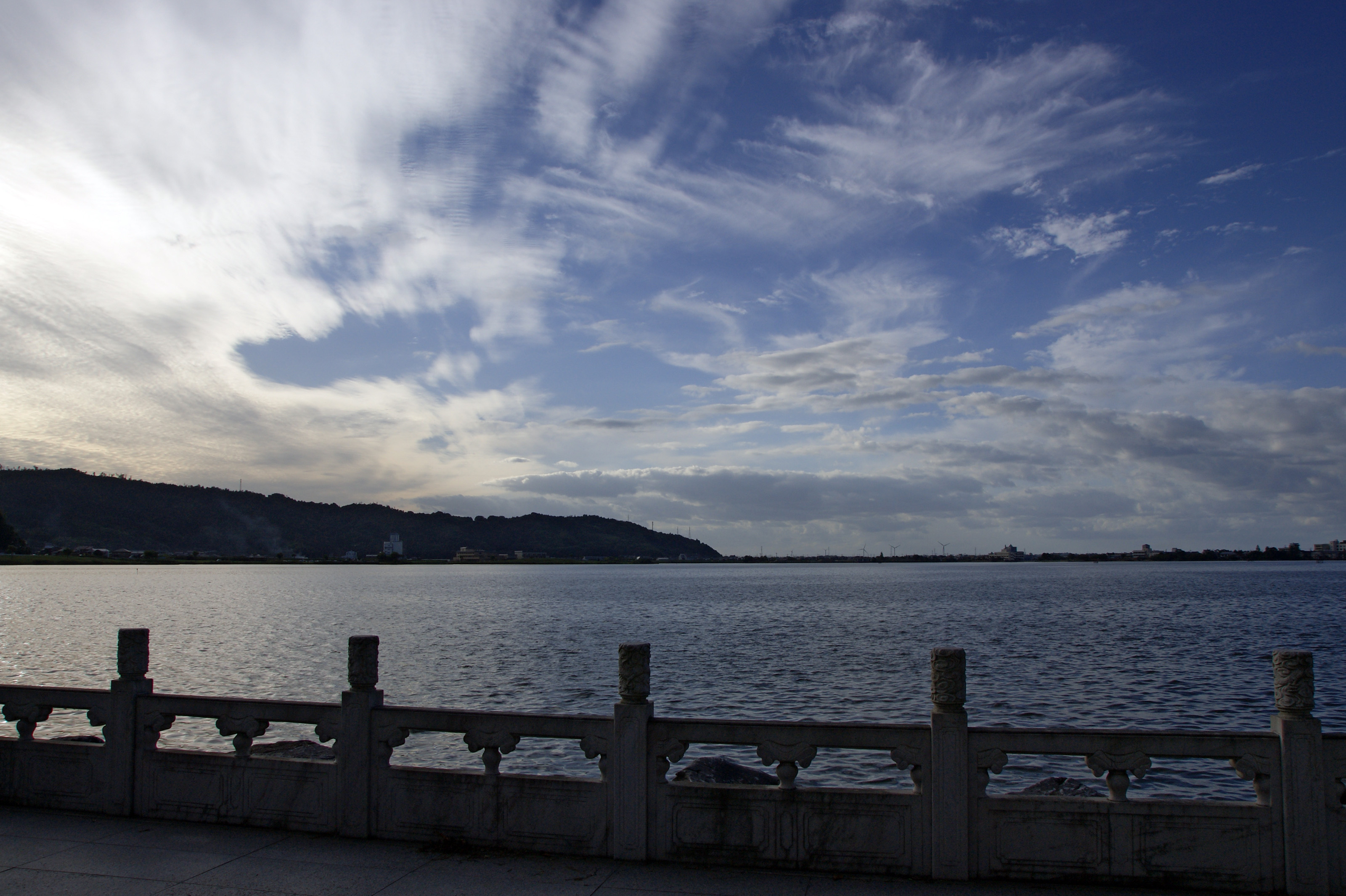 Lake Togo, Yurihama, Tottori prefecture, Japan